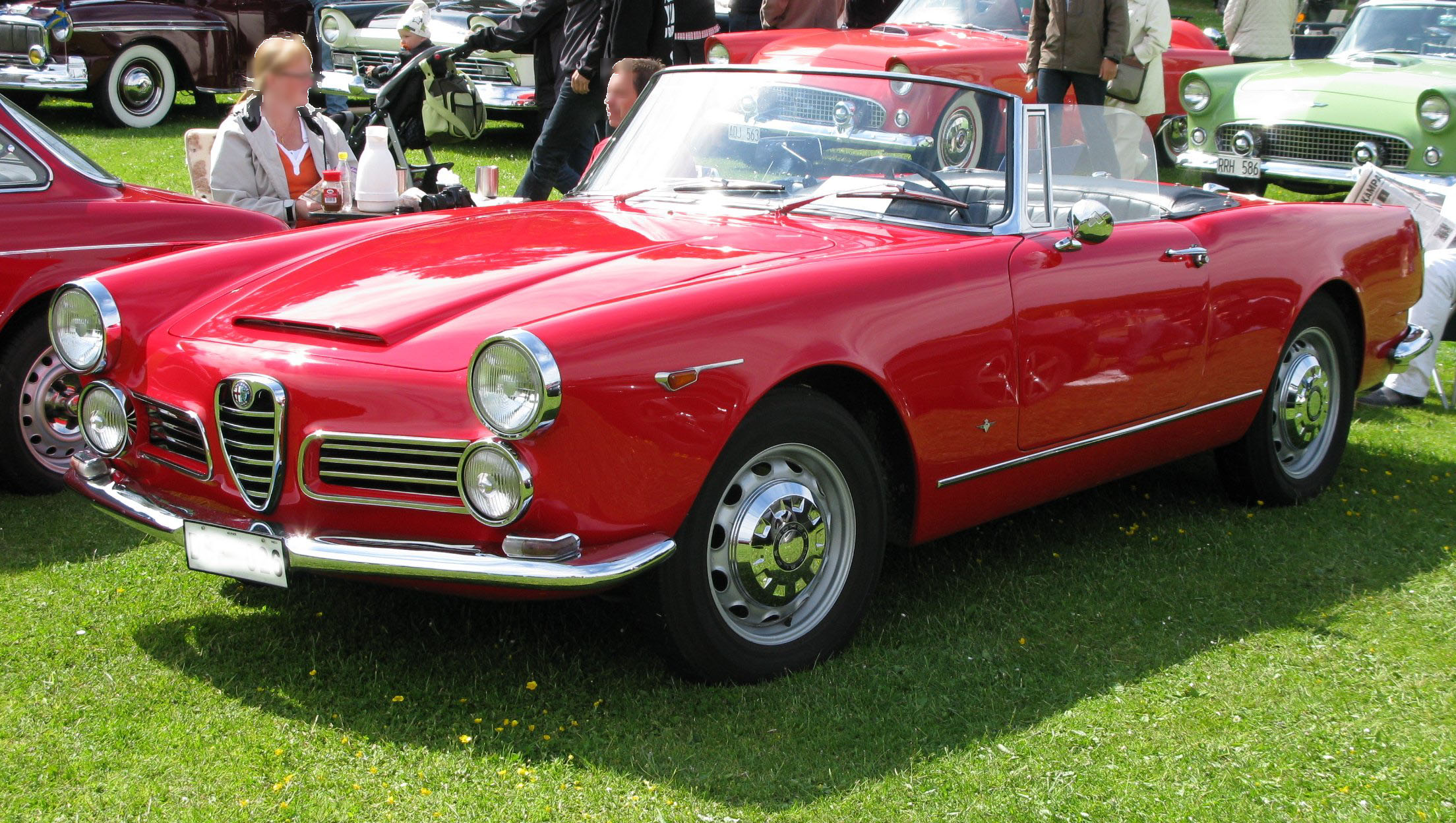 Alfa Romeo 2600 Spider.Event: Tjolöholm Classic Motor 2009